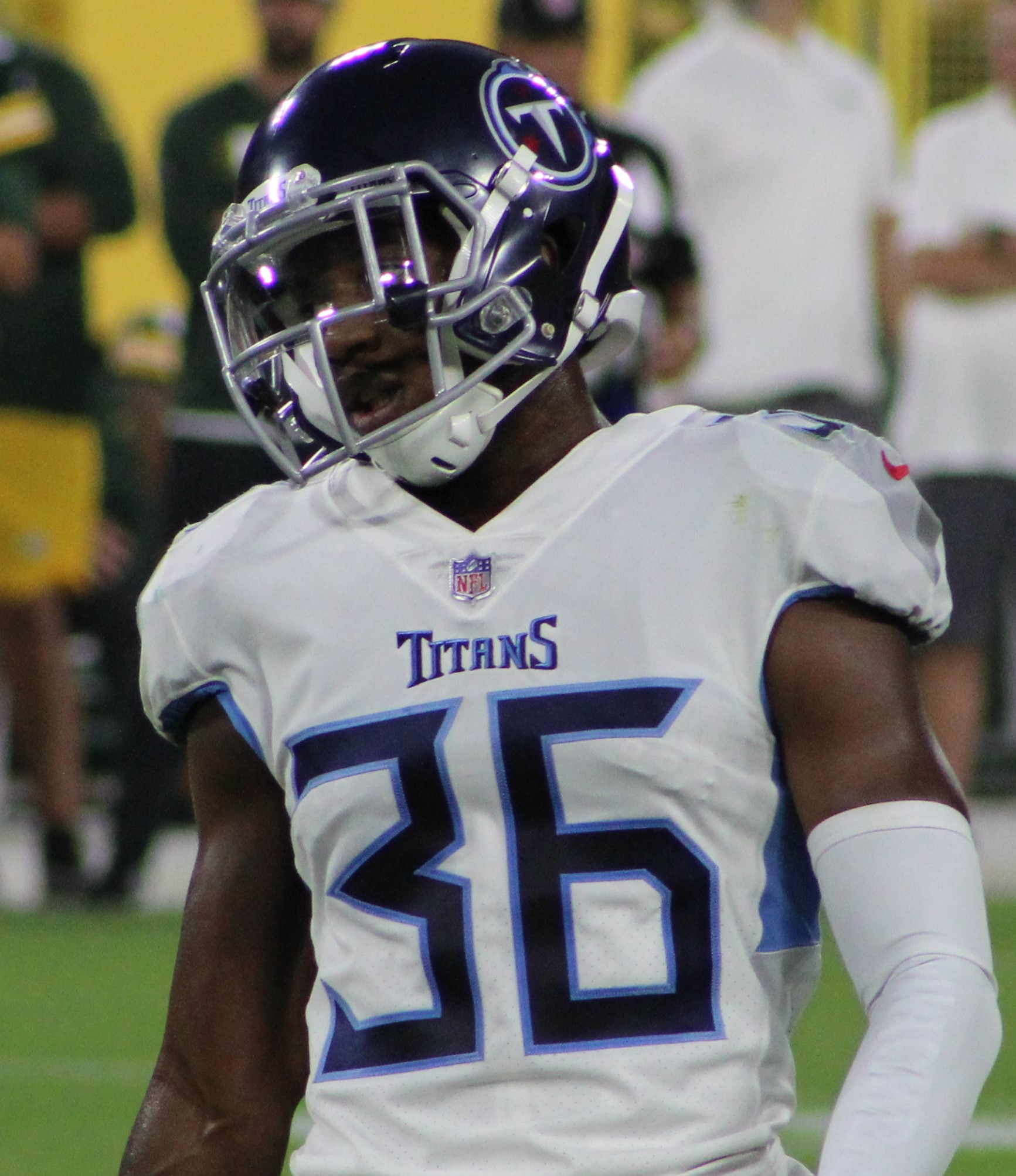 LeShaun Sims, Tennessee Titans at Green Bay Packers (Preseason), August 9, 2018